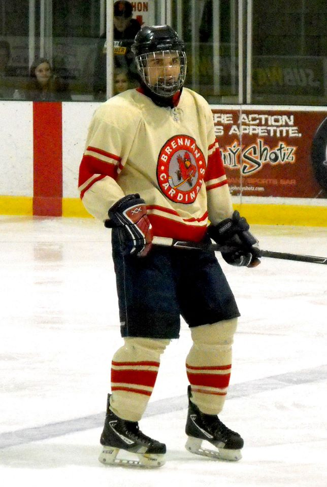 This photo was taken by Devan Mighton during the 2014-15 WECSSAA season.